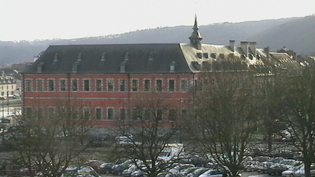 Walon: Pårlumint del Walonreye a Nameur